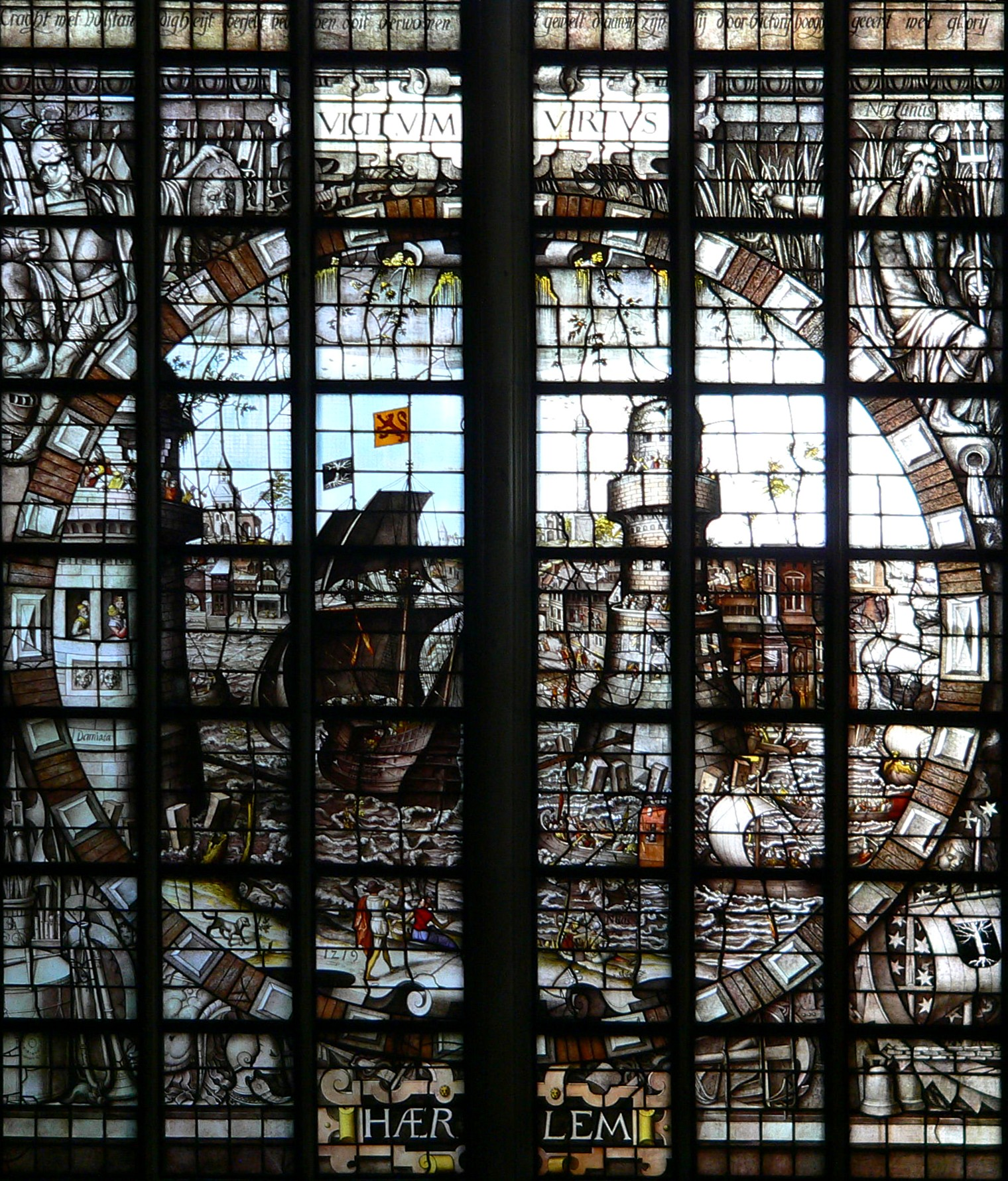 The stained-glass window number 2 (detail) in the Sint Janskerk at Gouda/Netherlands: "The capture of Damietta"